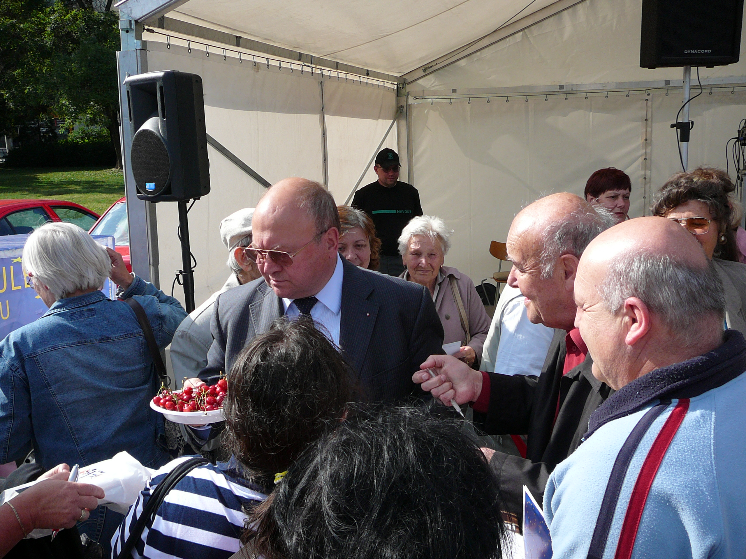 Vladimír Remek with cherries, European Parliament election campaing of Komunistická strana Čech a Moravy (2009), Moravské náměstí, Brno